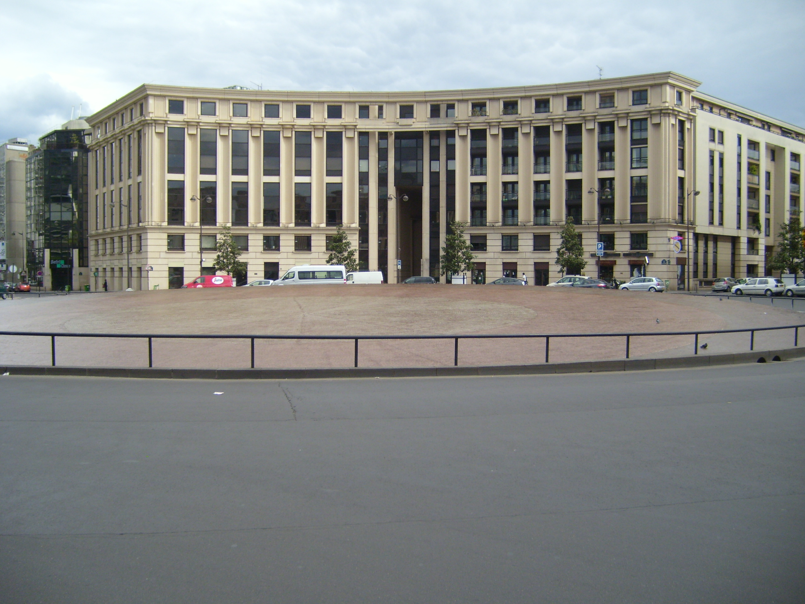 Place de Catalogne, Paris XIVe arrondissement, with the Fontaine du Creuset-du-Temps (1988) de Shamaï Haber.